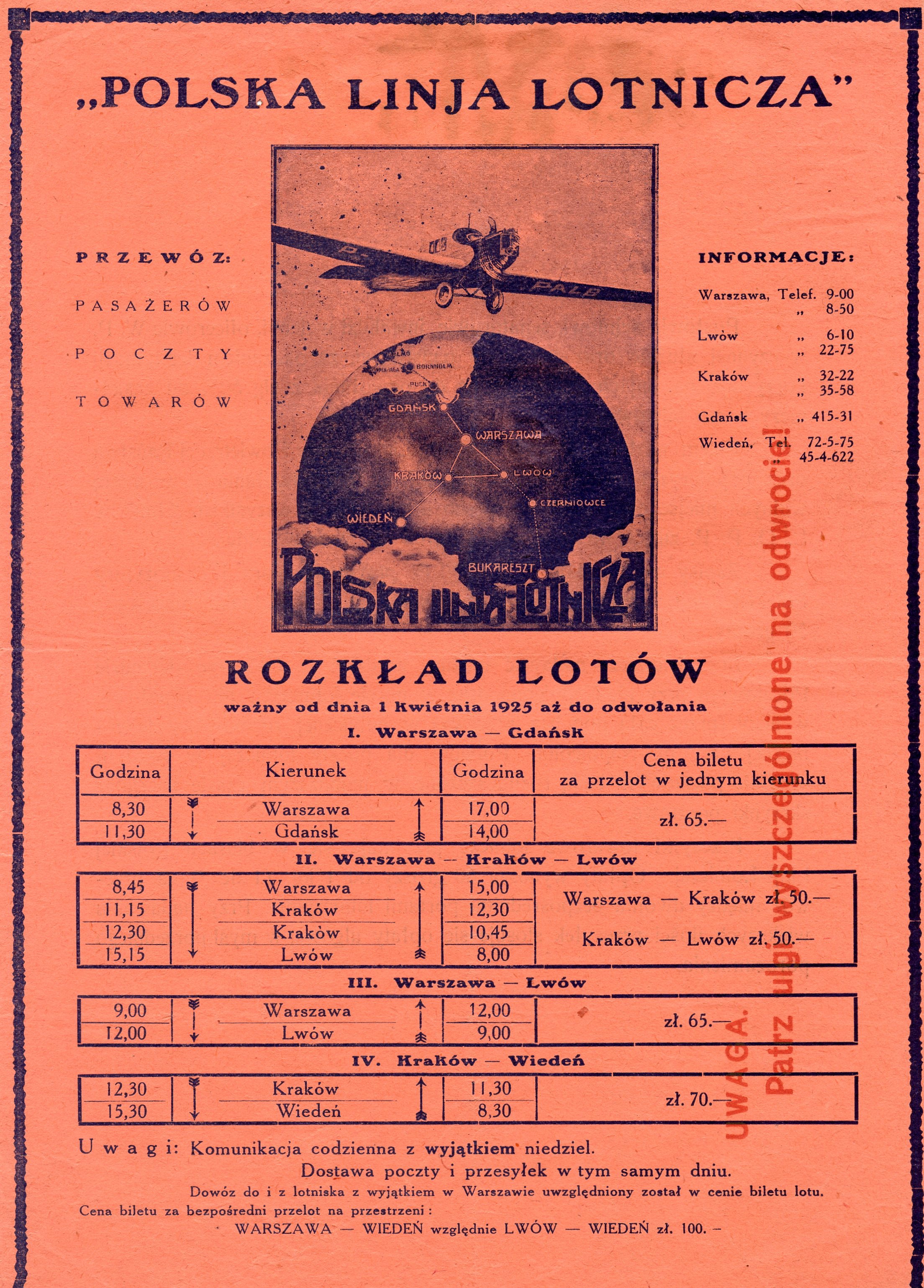 Polish airflight schedule and pricing. 1925. First page, see File:Skany dokumentow historycznych 068.jpg for the second page.